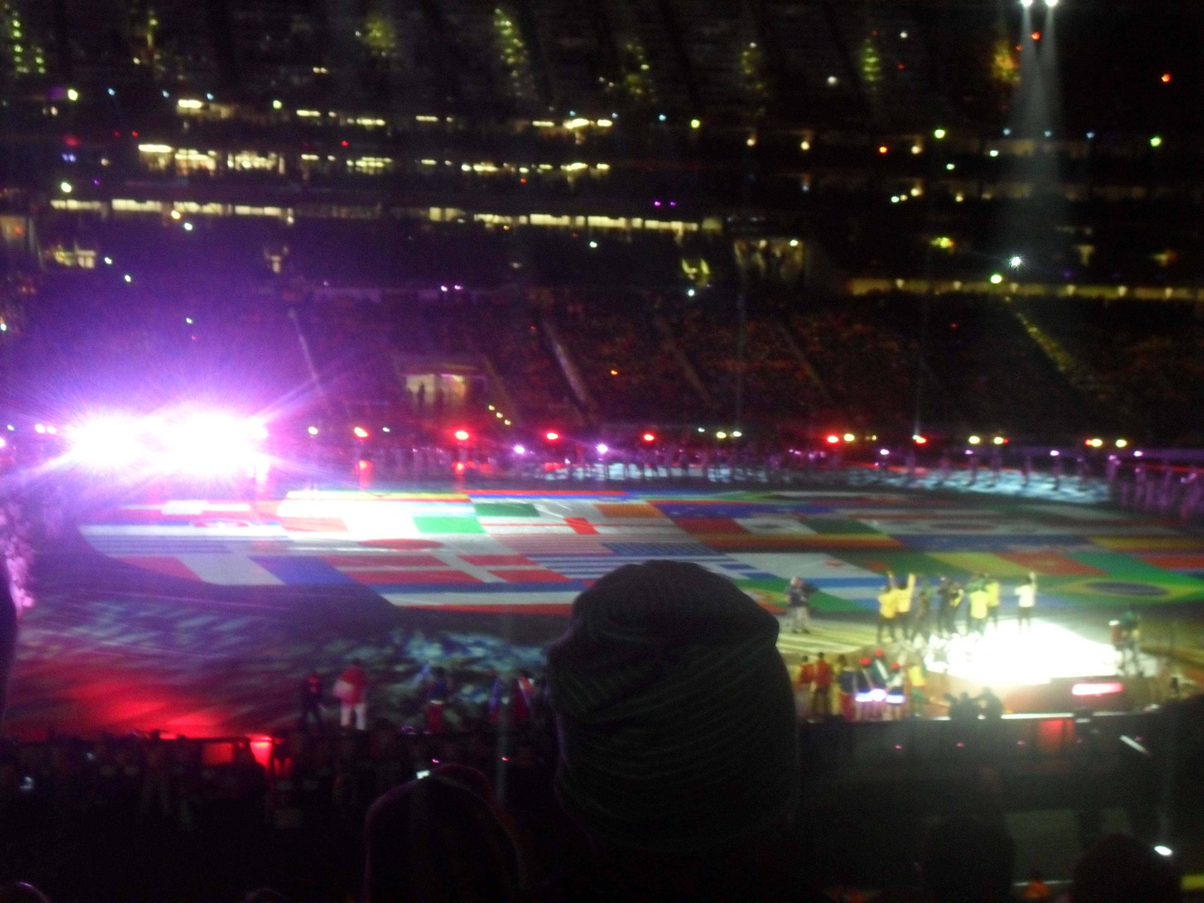 FIFA World Cup 2010 Final opening ceremony, Soccer City